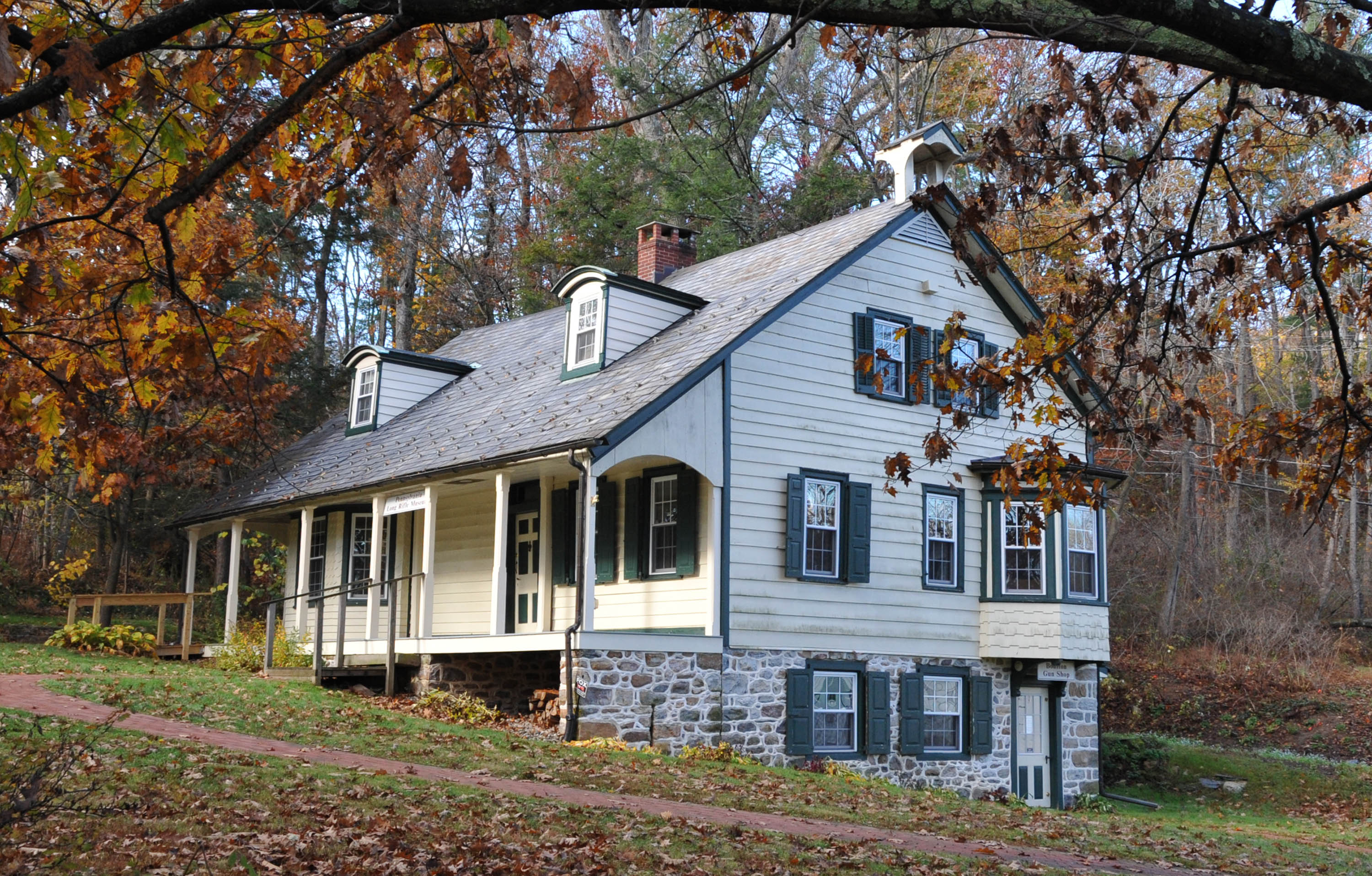 THE HENRY HOMESTEAD BUILT CIRCA 1790 AS A LOG CABIN BUT WILLIAM HENRY III ALTERED THE BUILDING IN 1812. IT IS NOW USED AS THE PENNSYLVANIA LONGRIFLE HERITAGE MUSEUM. THE HENRY FAMILY WERE GUNMAKERS WHO SUPPLIED GUNS FOR THE FRENCH AND INDIAN WAR, THE REVOLUTION, AND THE WAR OF 1812. THE HENRY RIFLE WAS USED IN THE CIVIL WAR AND BY JOHN JACOB ASTOR FUR COMPANY